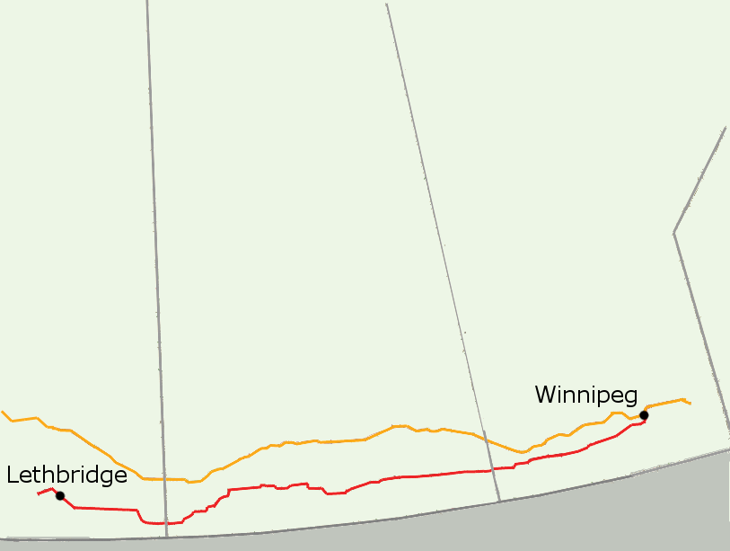 Red Coat Trail marked in red Trans Canada marked in yellow Across Alberta, Saskatchewan and Manitoba west to east